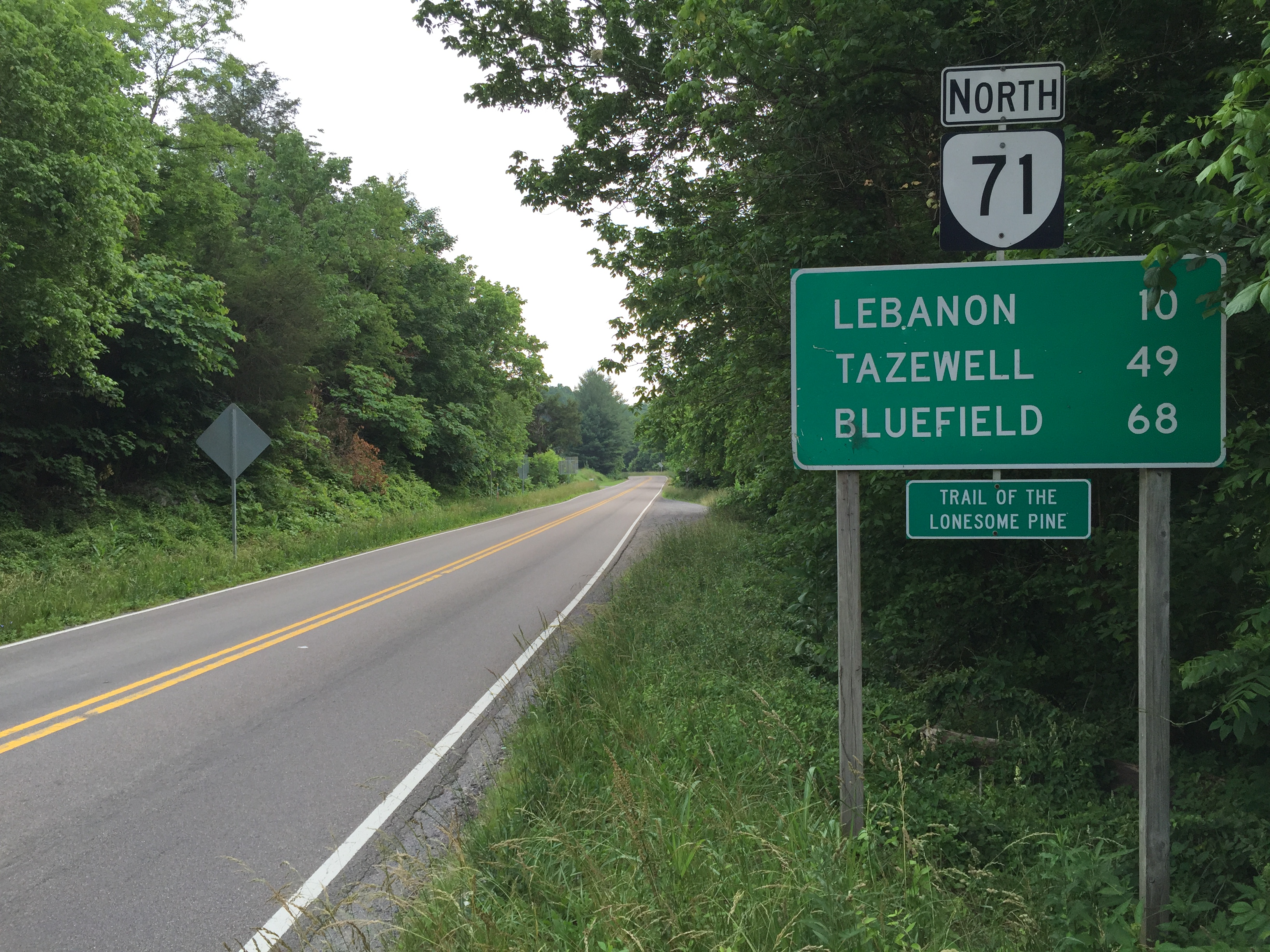 View north along Virginia State Route 71 (Trail of the Lonesome Pine) at U.S. Route 58 Alternate in Dickensonville, Russell County, Virginia